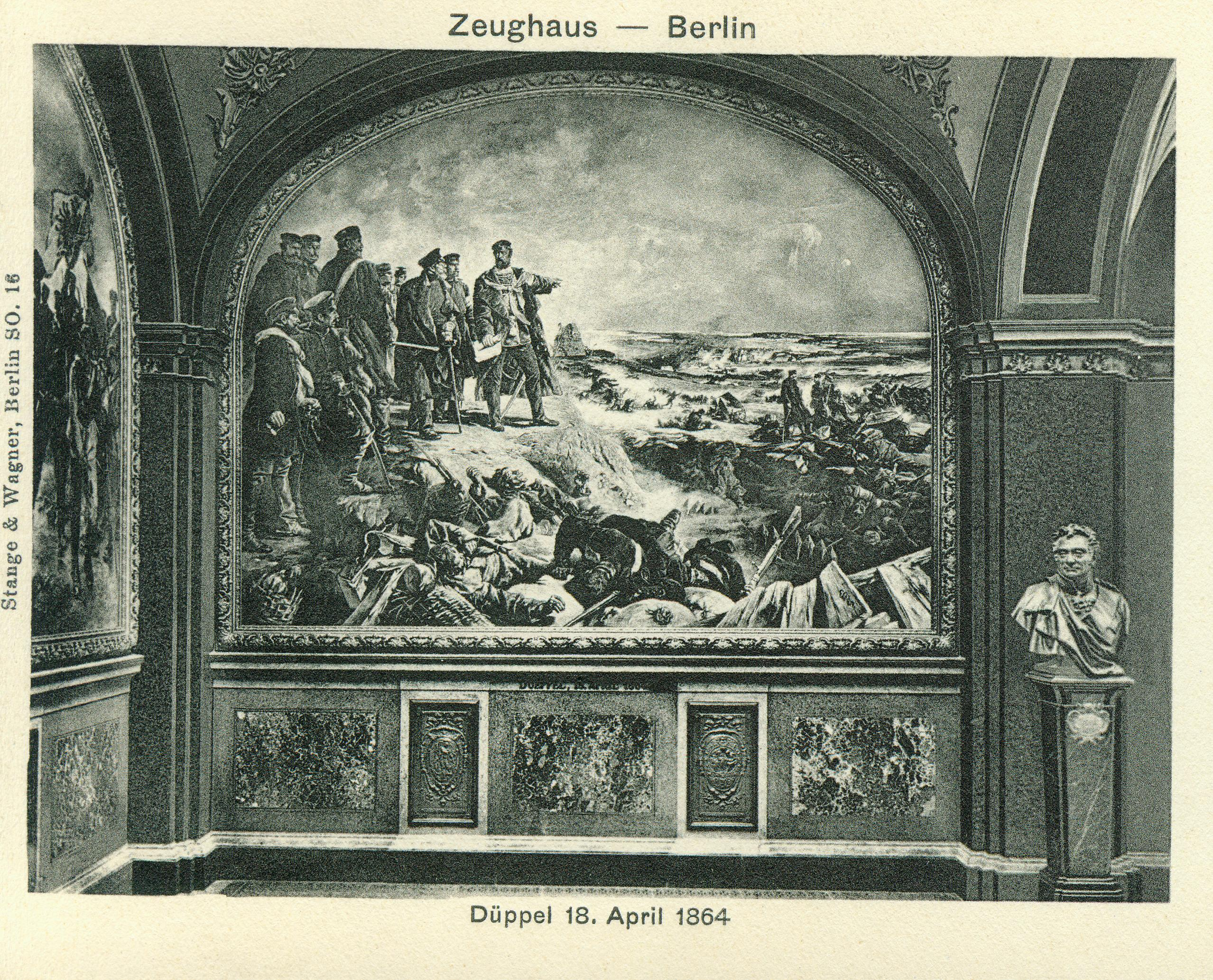 Ruhmeshalle Berlin, wallpainting by Ernst Roeber